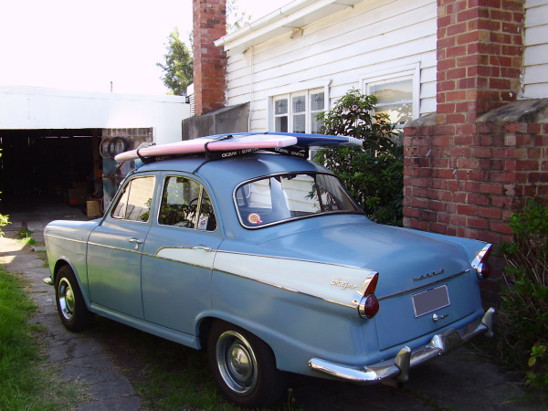 Morris Major Elite: MCCV, 2007.